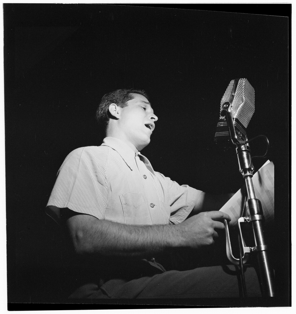 Gottlieb, William P., 1917-, photographer. [Portrait of Perry Como, New York, N.Y., ca. Oct. 1946] 1 negative : b&w ; 2 1/4 x 2 1/4 in. Notes: Gottlieb Collection Assignment No. 087 Purchase William P. Gottlieb Forms part of: William P. Gottlieb Collection (Library of Congress). Subjects: Como, Perry, 1912- Jazz musicians--1940-1950. Jazz singers--1940-1950. Format: Portrait photographs--1940-1950. Film negatives--1940-1950. Rights Info: Mr. Gottlieb has dedicated these works to the public domain, but rights of privacy and publicity may apply. Repository: (negative) Library of Congress, Prints & Photographs Division, Washington D.C. 20540 USA, Part Of: William P. Gottlieb Collection (DLC) 99-401005 General information about the Gottlieb Collection is available at Persistent URL: Call Number: LC-GLB23- 1065 This work is from the William P. Gottlieb collection at the Library of Congress. Rights and restrictions.In accordance with the wishes of William Gottlieb, the photographs in this collection entered into the public domain on February 16, 2010.